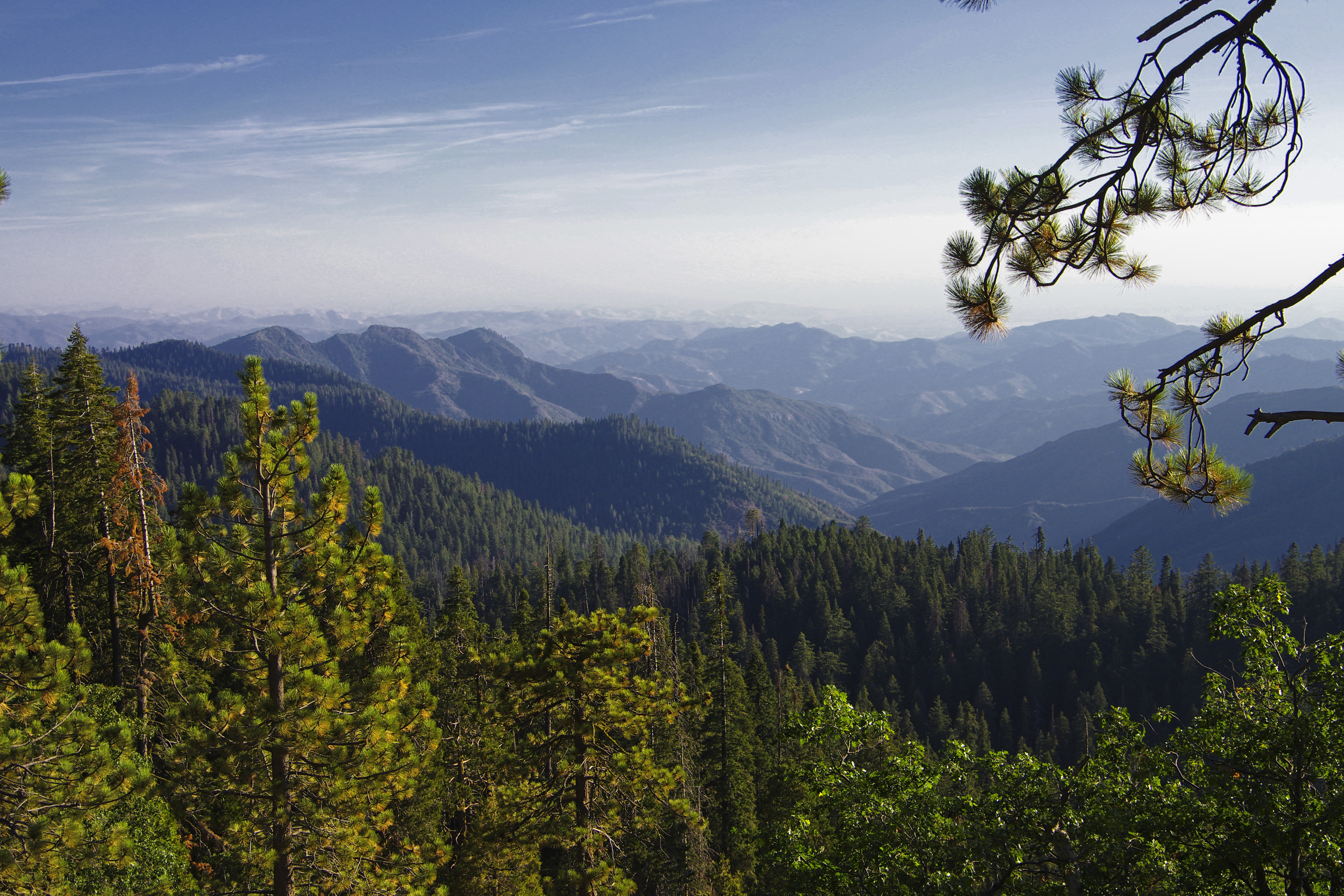 Kings Canyon National Park, California